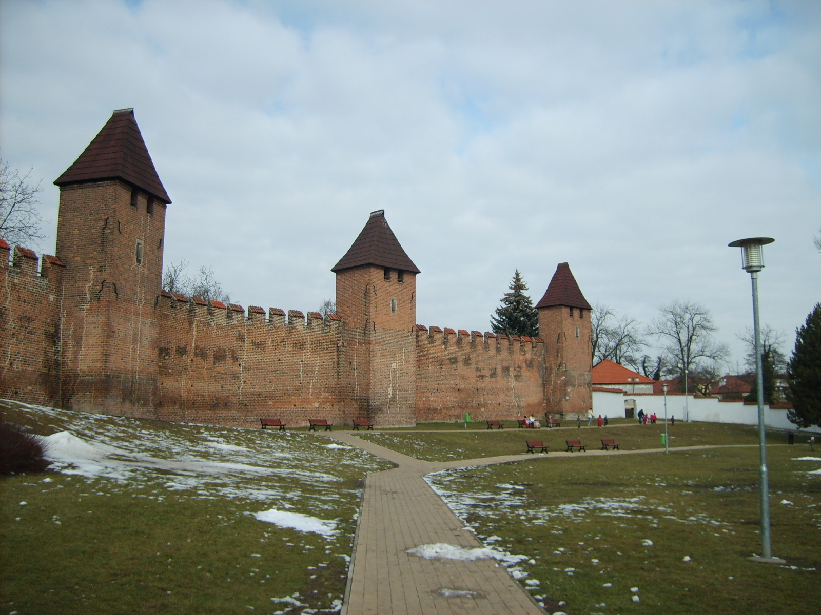 Medieval walls in Nymburk, CZ